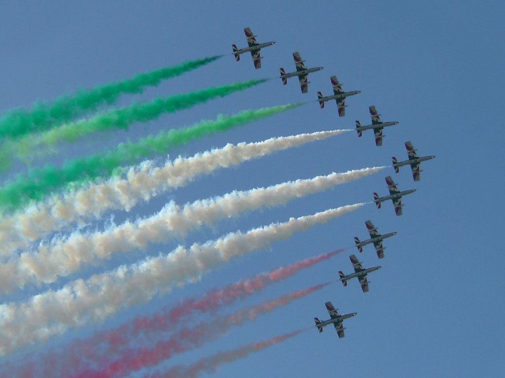 Frecce Tricolori finale at RIAT 2005. Photo by Andrew P Clarke.